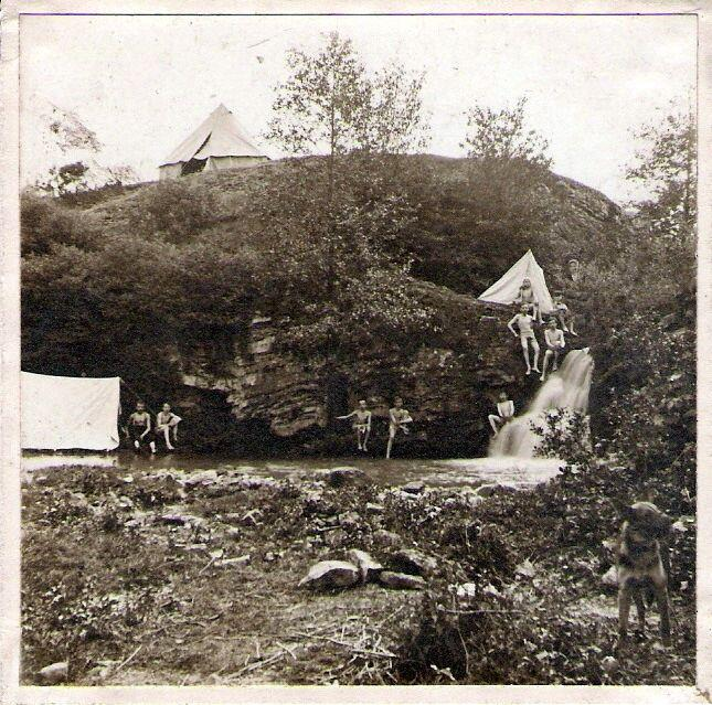 Scouts in Prokopské údolí in 1911.